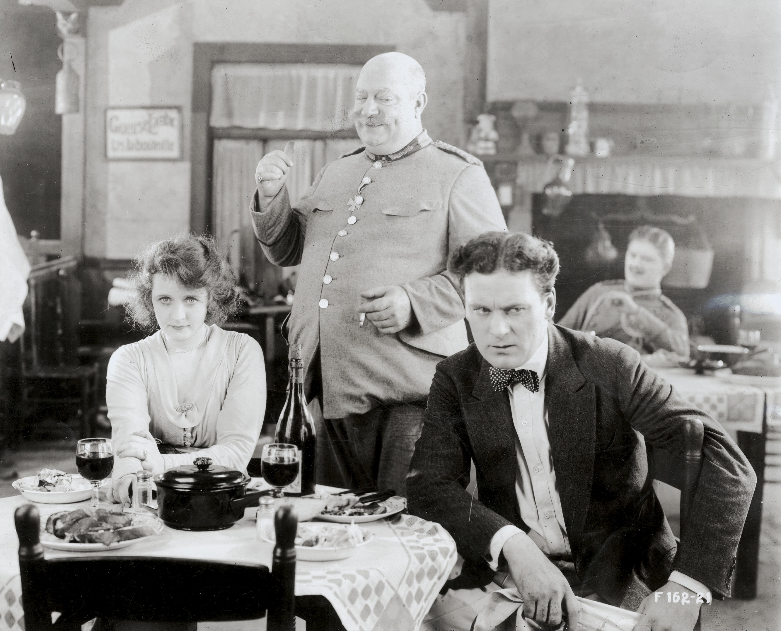 Arms and the Girl is a 1917 silent drama film produced by Famous Players-Lasky and distributed by Paramount Pictures. This is a publicity photo for the film with Billie Burke, George S. Trimble, and Thomas Meighan.